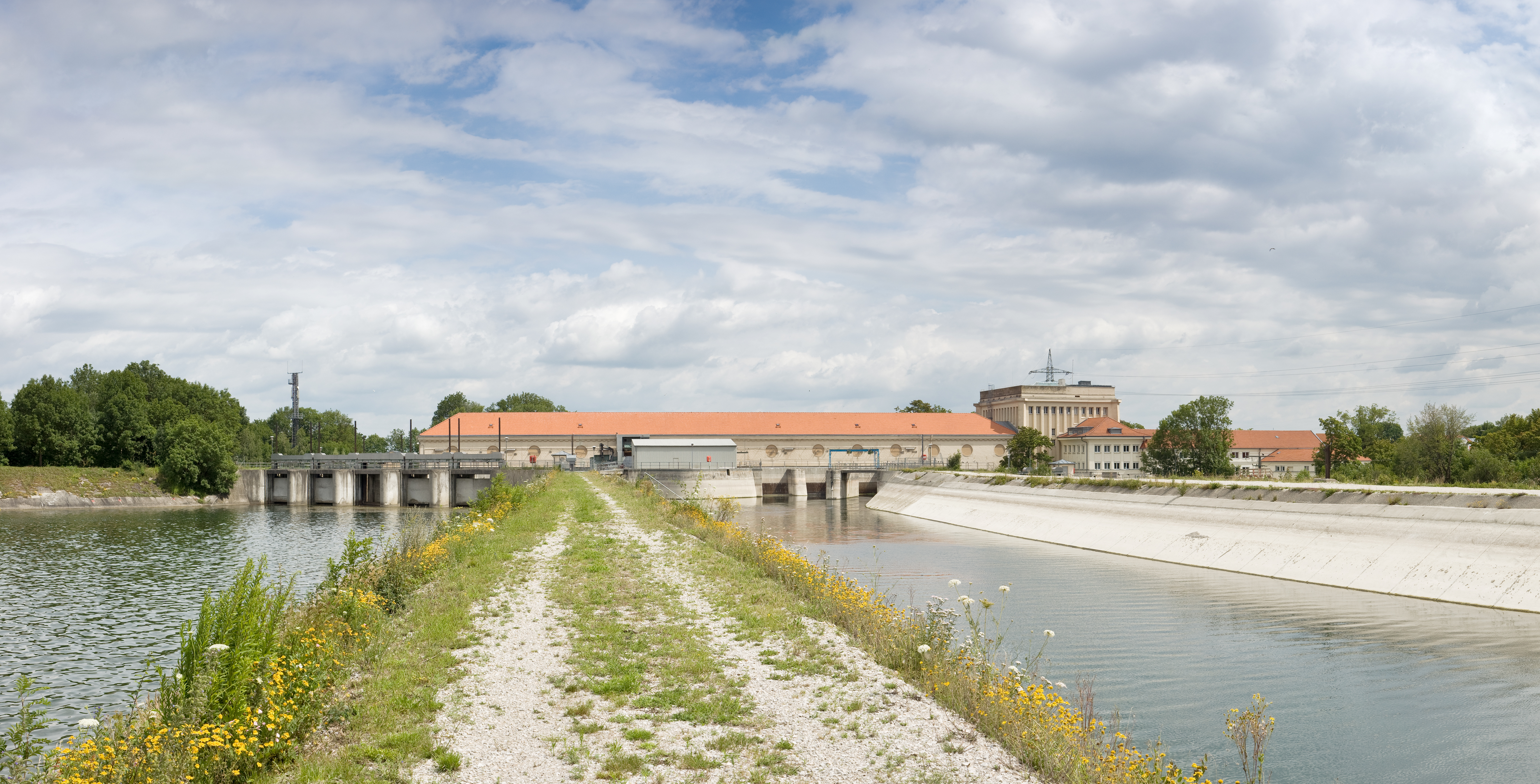 Feed of river power plant Finsing close to Munich, Germany. Hydroelectricity power: 8,0 MW. Year of construction 1924